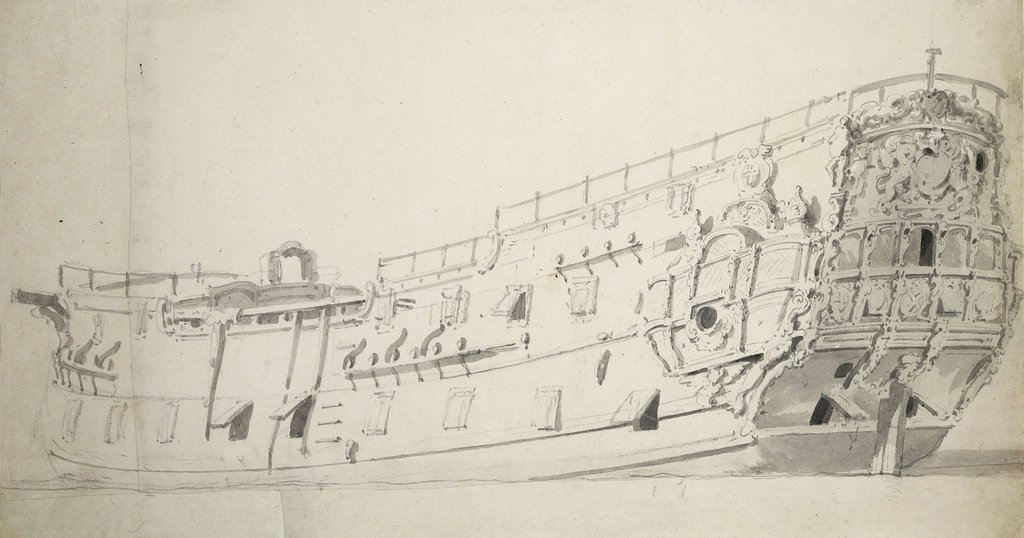 A fifth rate warship sketched by Willem Van De Velde The Younger, considered to be HMS Dartmouth during her 1678 refit.